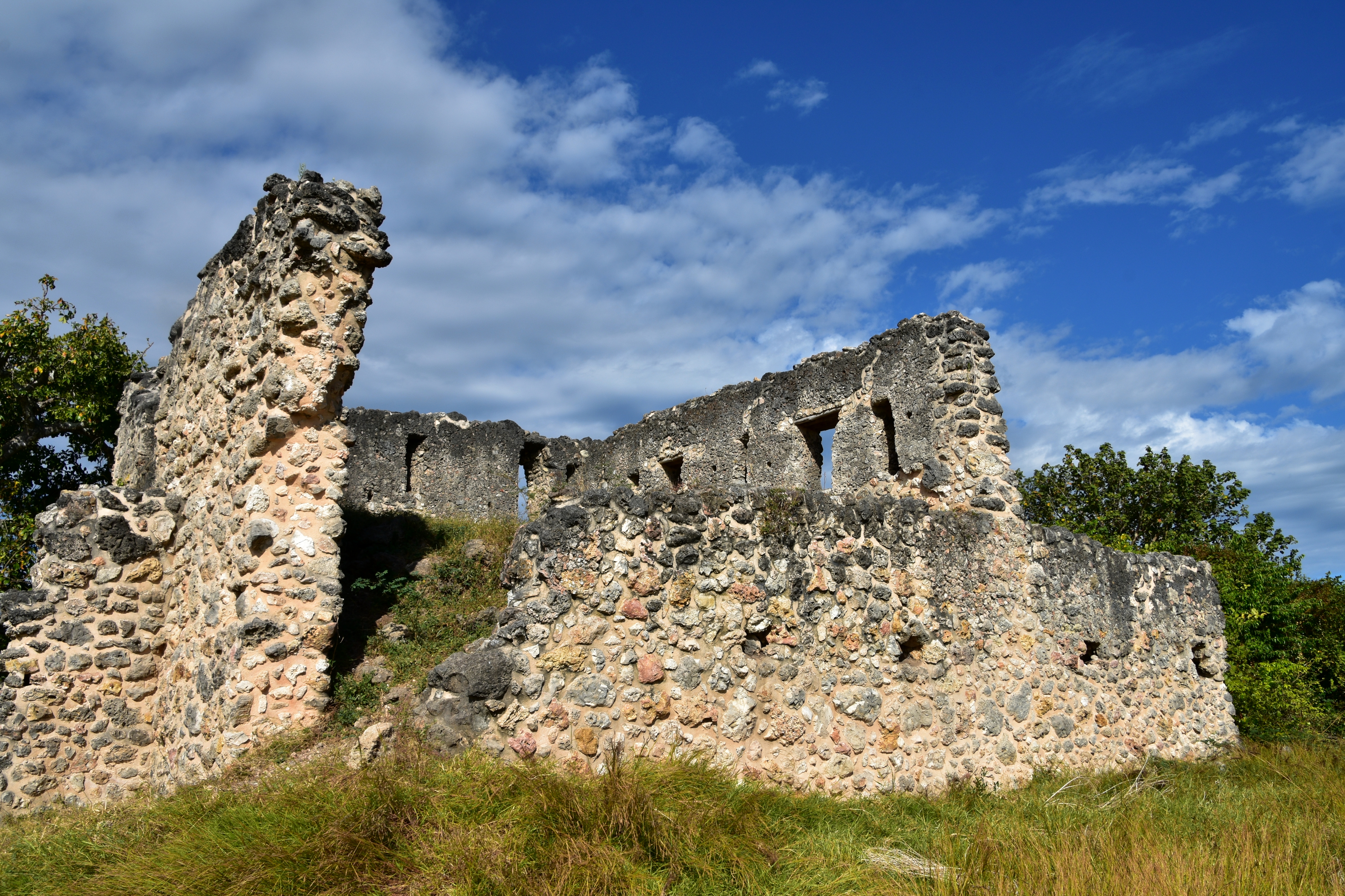 Makutani Palace ruins, Kilwa Kisiwani, built by the Omanis in the 18th century (3)